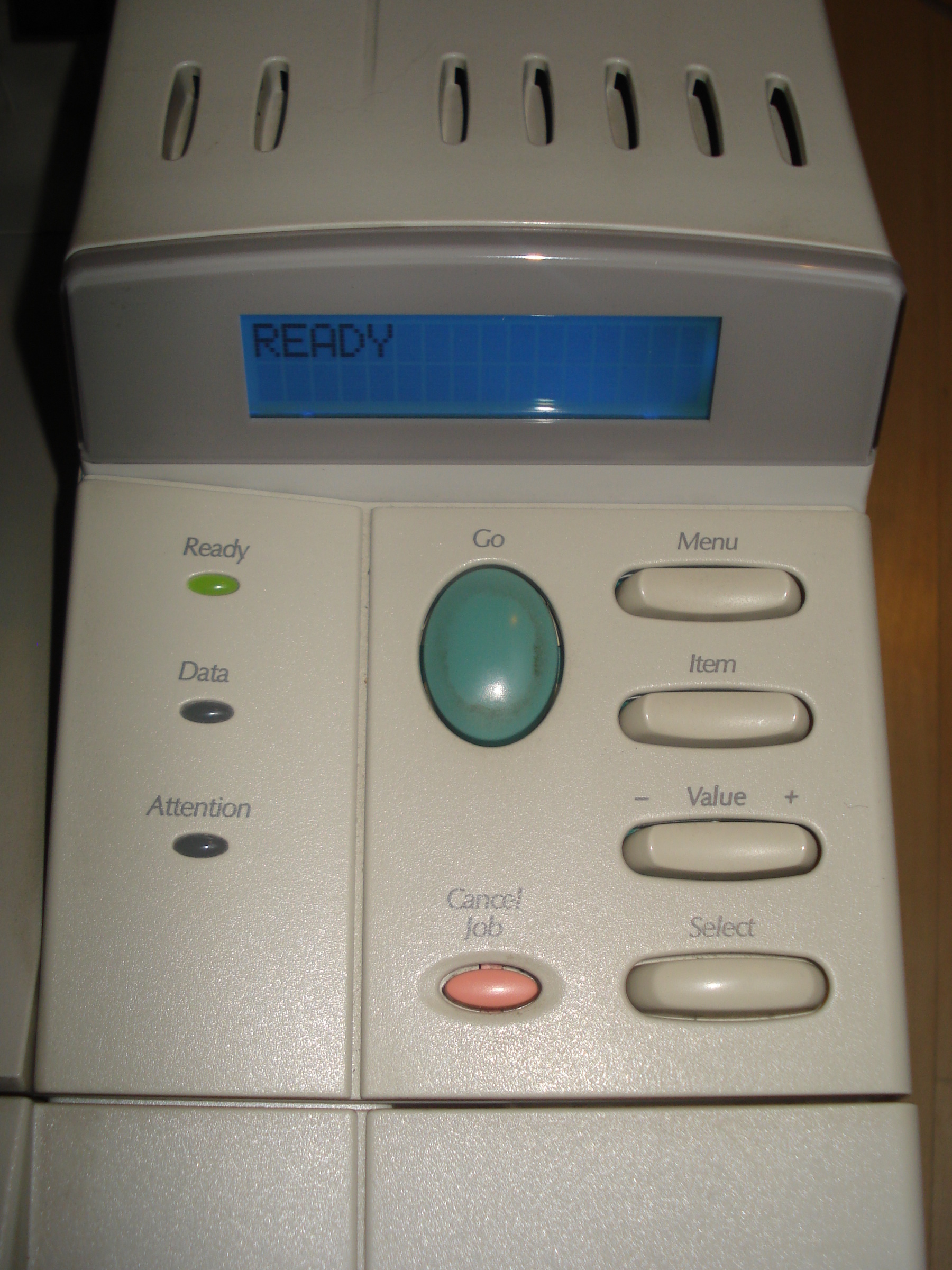 My HP LaserJet 4000n: Control Panel